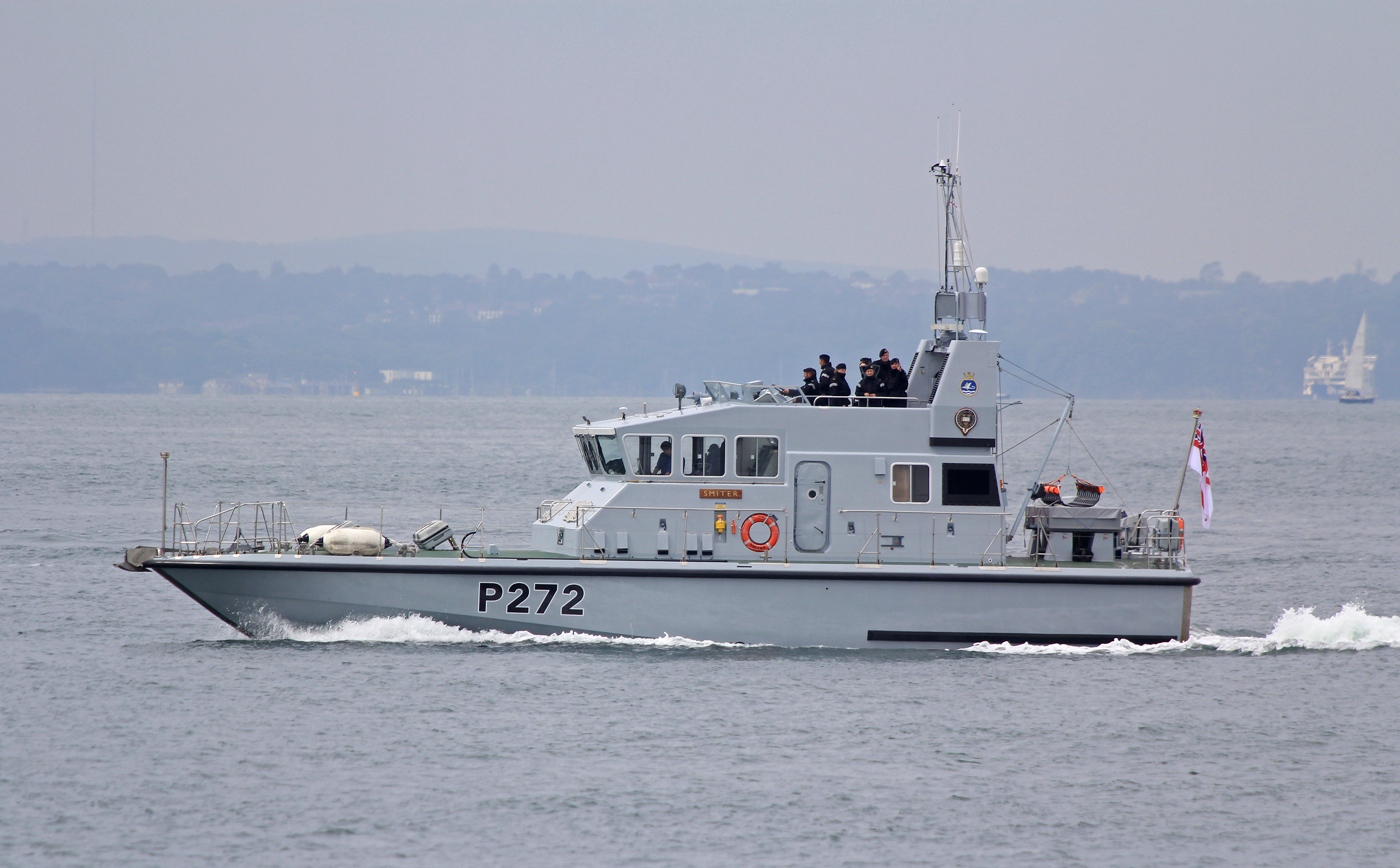 Archer class patrol & training vessel HMS_Smiter photographed on 17 June 2016 by Brian Burnell outward bound from Portsmouth Naval Base at 10.09 GMT on 17 June 2016.